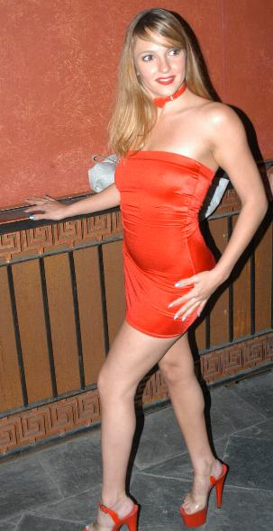 April 5 2007: XRCO Awards 2007.